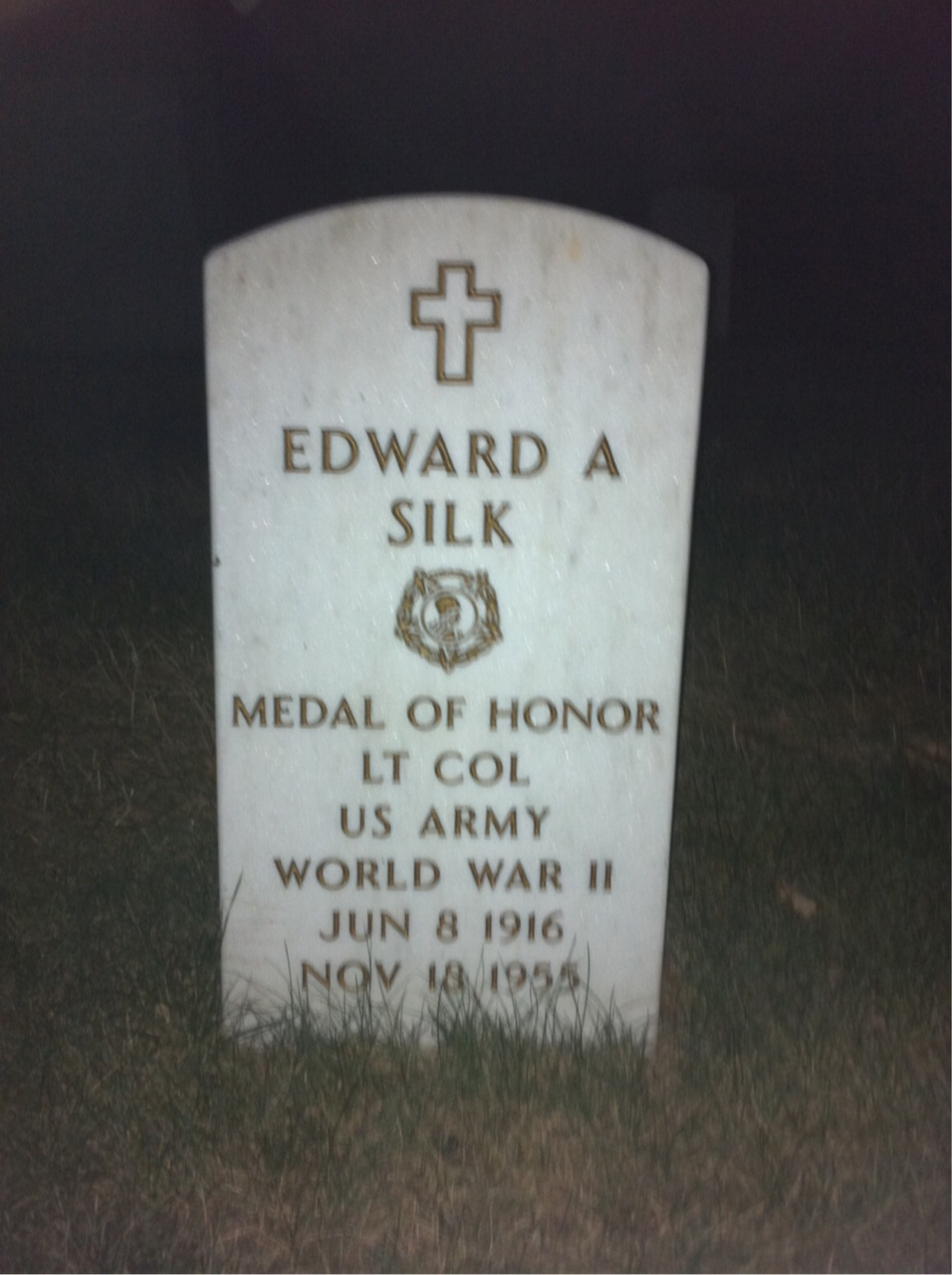 Grave of Edward A. Silk at Arlington National Cemetery